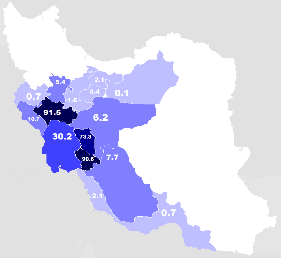 According to the survey carried out by Ministry of Culture of İran in 2010: provinces of mother tongue speaker of Lurs and their proportions among population in those provinces.